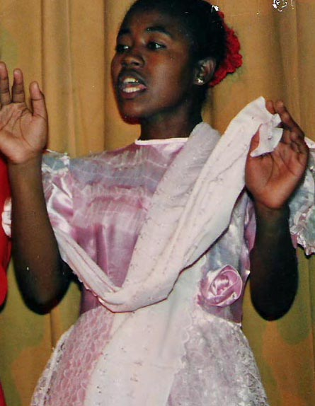 EMELINE RAHOLIARISOA PERFORMING HIRA GASY OPERA